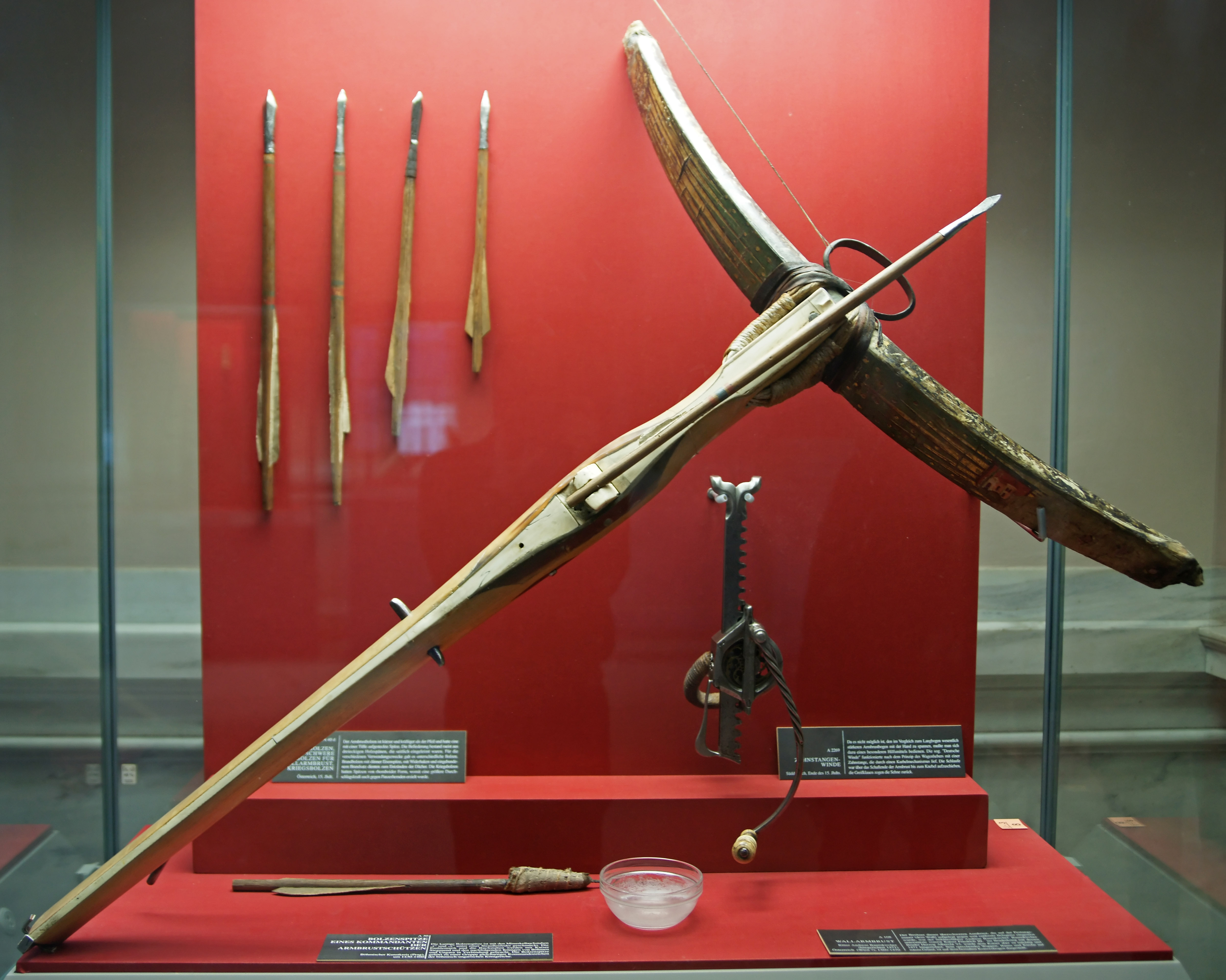 Heavy siege defence crossbow (Wallarmbrust) of Andreas Baumkirchner (d. 1471), c. 1460-70.